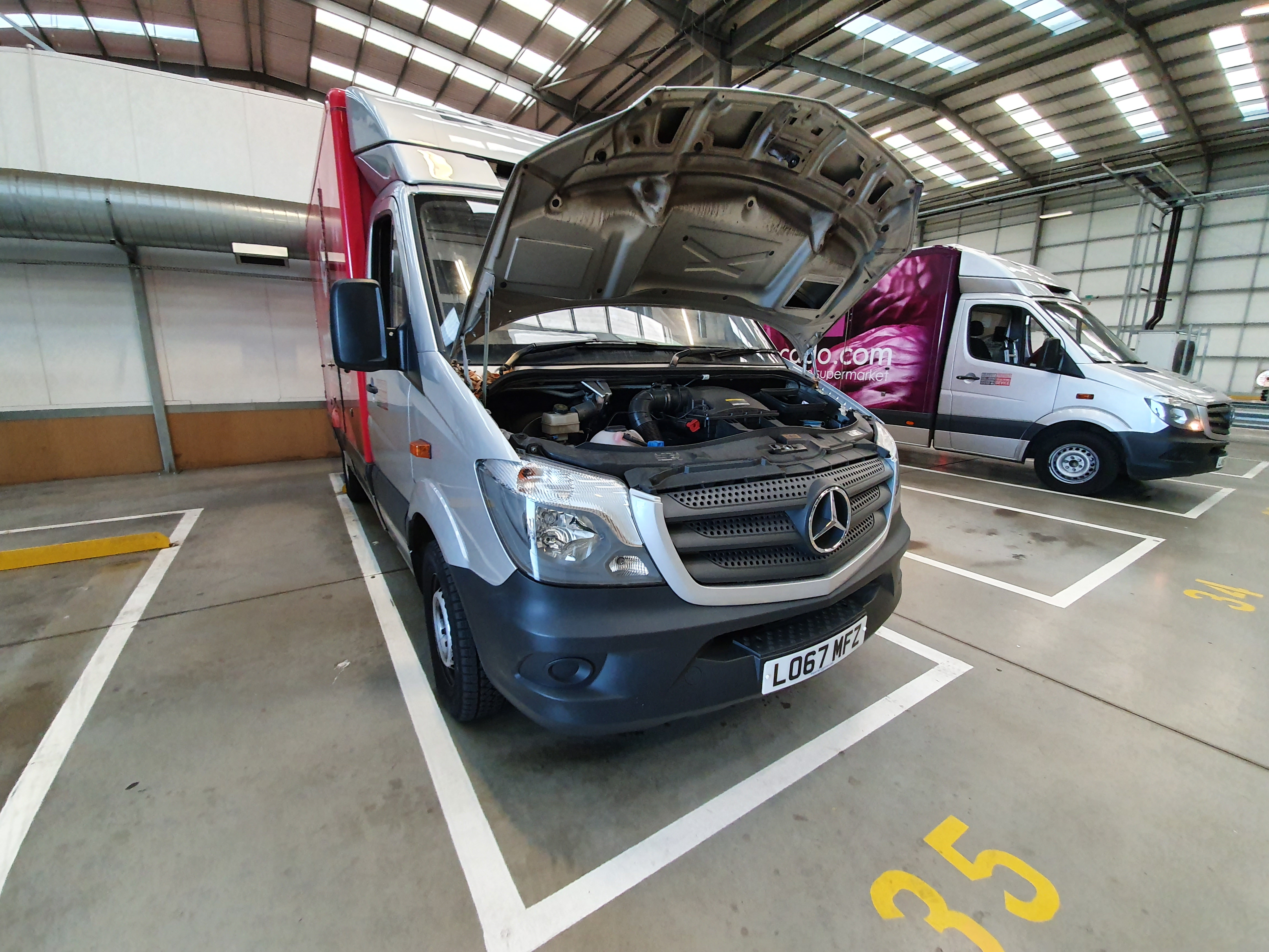 Ocado van with bonnet up at Depot